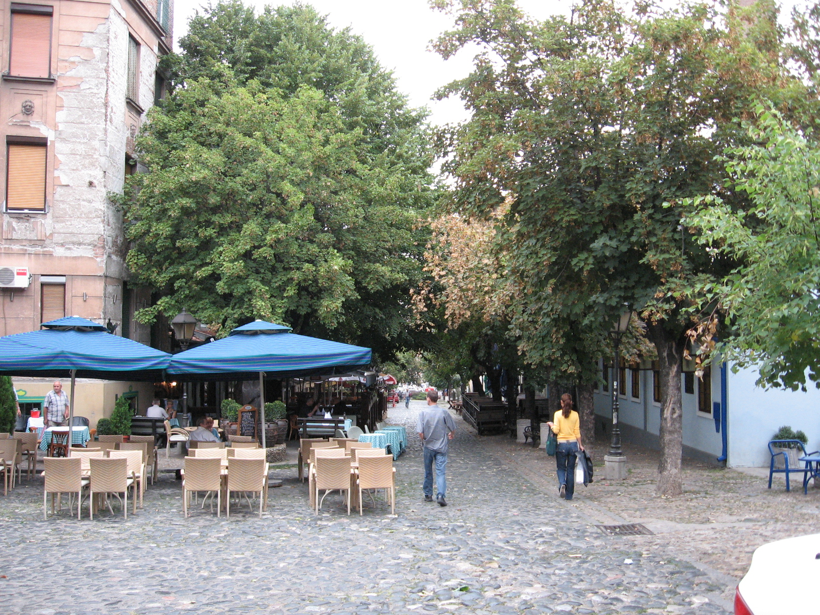 Restaurants in Skadarlija - Belgrade